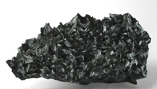 Pyrolusite Locality: Las Cruces, Doña Ana County, New Mexico, USA (Locality at ) Size: 10.4 x 5.8 x 2.2 cm. Pyrolusite (manganese oxide) is not typically seen in specimens that are actually aesthetic; but this find in New Mexico was an exception. Here, you see it having formed tightly stacked "books" of wafer-thin crystals that together create this shimmering, flashy silvery-grey field.